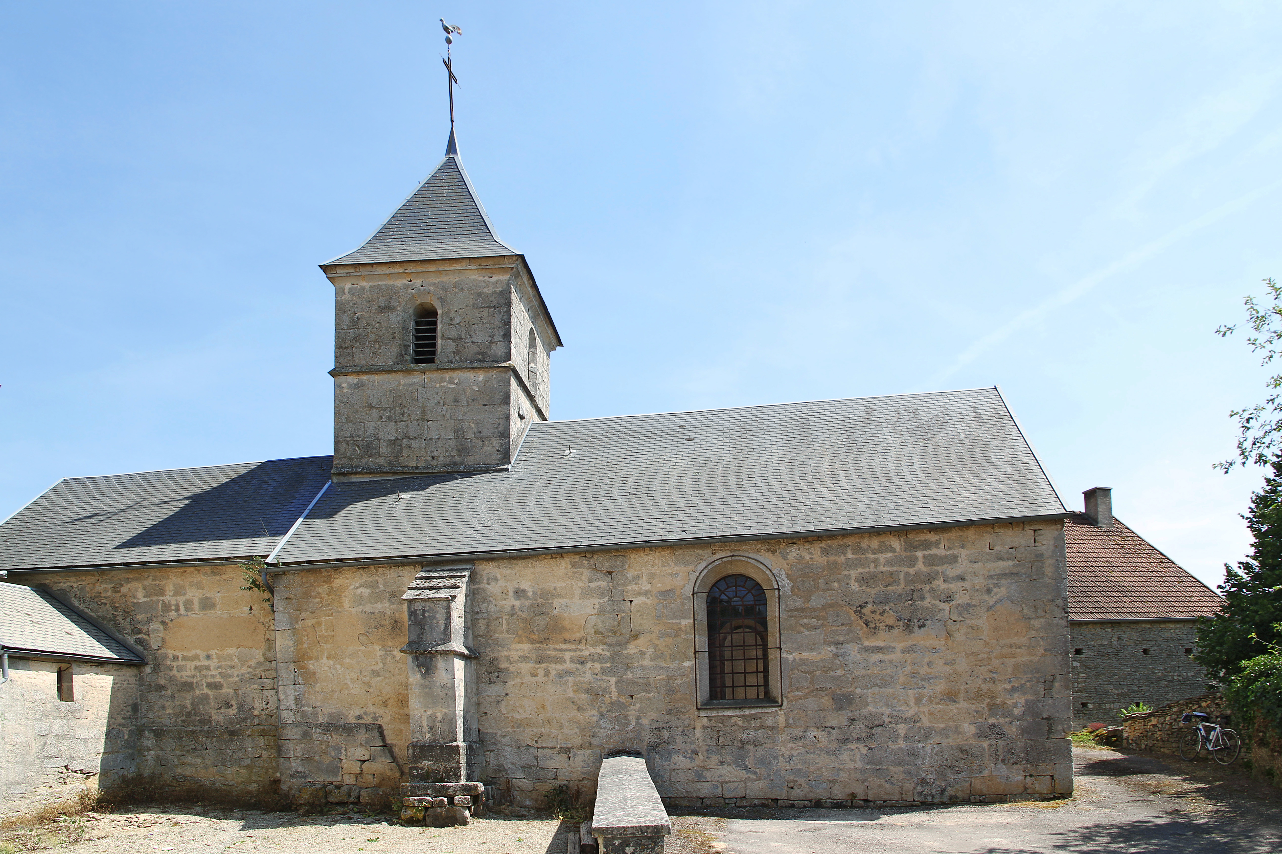 Church of the Nativity and Saint Pierre (St Peter) in Beaunotte